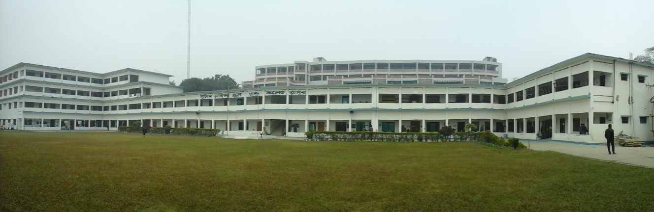 A panoramic view of Police Lines School and College, Rangpur